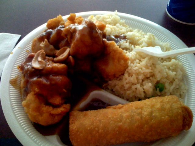 A combination plate that includes Springfield-style cashew chicken, fried rice, and an egg roll as served by Wok-n-Roll in the Missouri State University Student Union in Springfield, Missouri, USA.